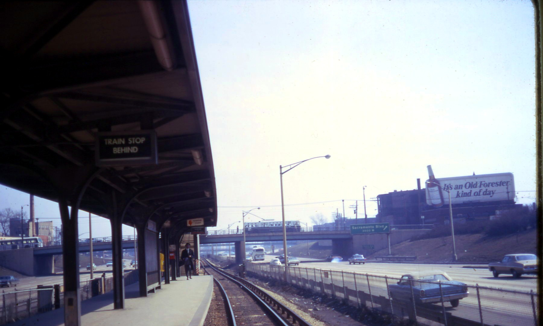 The Kedzie-Homan Chicago 'L' station, then known as Kedzie, in 1968.